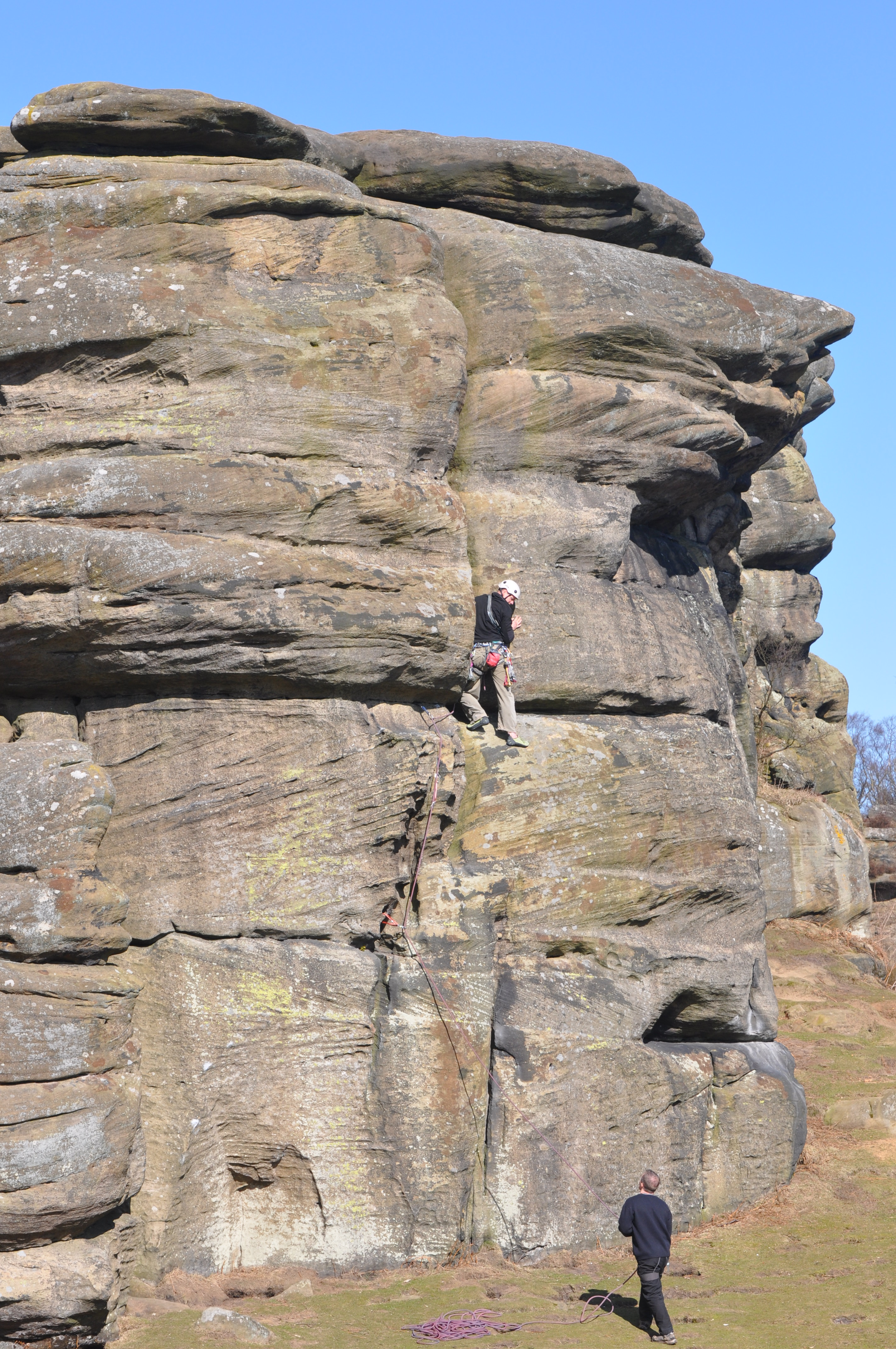 Brimham Rocks, North Yorkshire, England. This is a Site of Special Scientific Interest. It was designated for its geological and biological significance.